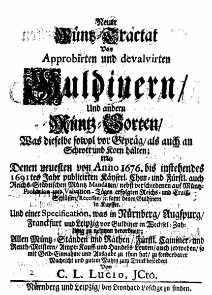 Title of Neuer Müntz-Tractat Von Approbirten und devalvirten Guldinern/ Und andern Müntz-Sorten: Was dieselbe sowol vor Gepräg/ als auch an Schrott und Korn halten Mit Denen neuesten von Anno 1676. bis instehendes 1691tes Jahr publicirten Käyserl. Chur- und Fürstl. auch Reichs-Städtischen Müntz Mandaten/ nebst verschiedenen auf Müntz-Probation und Valvation-Tägen erfolgten Reichs- und Craiß-Schlüssen/ Recessen/ [et]c. samt denen Guldinern in Kupffer. Und einer Specification, was in Nürnberg/ Augspurg/ Franckfurt und Leipzig vor Guldiner in Wechsel-Zahlung zu nehmen verordnet/ Allen Müntz-Ständen und Räthen/ ... auch jedweden/ so mit Geld-Einnahme und Ausgabe zu thun hat/ zu sonderbarer Nachricht und gutem Nutzen zum Druck befördert Von C. L. Lucio, ICto. Published by Loschge, Nürnberg and Leipzig c. 1692